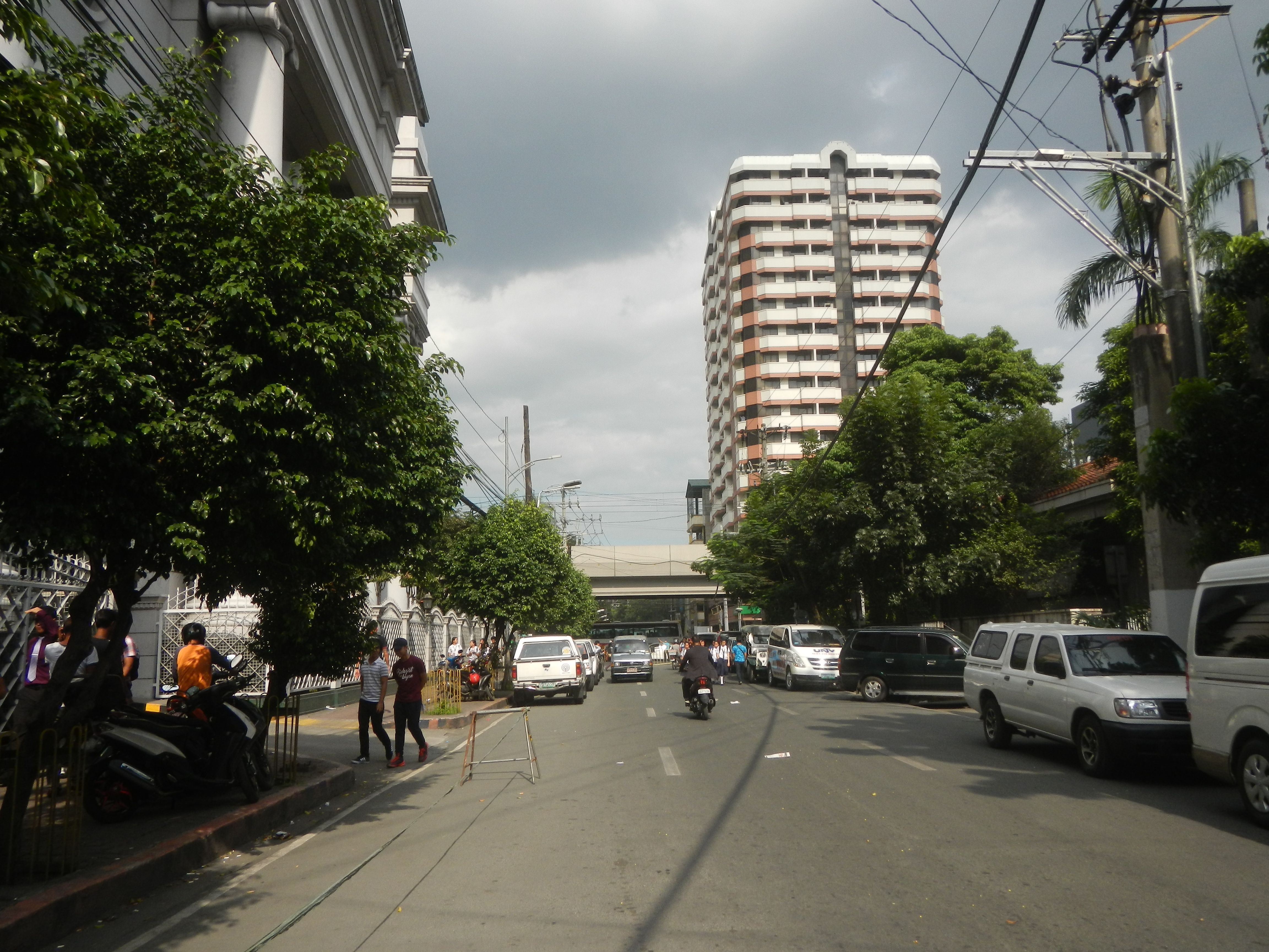 Ermita, Manila, List of barangays of Metro Manila Legislative districts of Manila 5th District, Barangays 669, Zone 72, 675, 676, Zone 73, 686, 687, 688, 694, 695, Zone 75, District V, Ermita, Manila, City of Manila United Nations Avenue along Taft Avenue United Nations LRT Station corner Padre Faura Street Padre Faura 14°34'42"N 120°58'59"E (Note: Judge Florentino Floro, the owner, to repeat, Donor Florentino Floro of all these photos hereby donate gratuitously, freely and unconditionally all these photos to and for Wikimedia Commons, exclusively, for public use of the public domain, and again without any condition whatsoever).